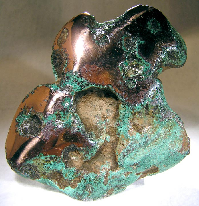 Copper Locality: Keweenaw County, Michigan, USA (Locality at ) Polished on one side to show off the penny-bright luster, this is a large (13-0z) nugget of Michigan copper, with greenish oxidized areas adding a pretty color accent. 9.5 x 8.6 x 1.7 cm